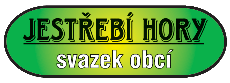 Logo Svazku obcí Jestřebí hory